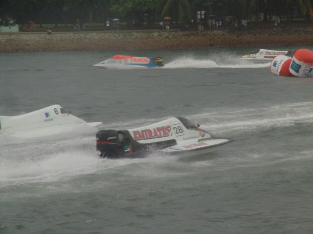 F1 Powerboat World Championship's 2004 Grand Prix of Singapore.